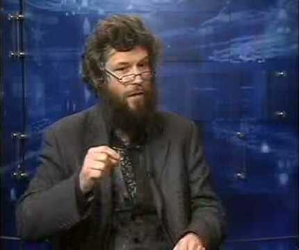 Nicolas Tournadre, invited by Kunleng, 2009